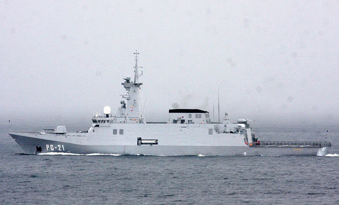 PC-21